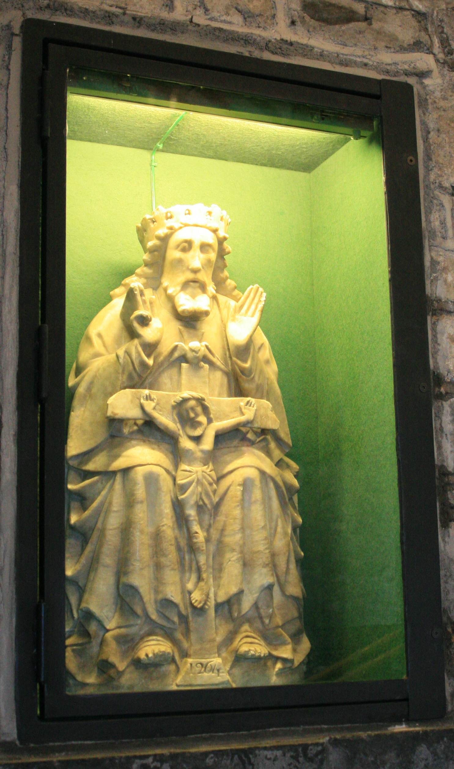 Kilkenny, Co. Kilkenny, Ireland Alabaster statue of the Trinity at Black Abbey. The statue was carved at Bristol about 1400.